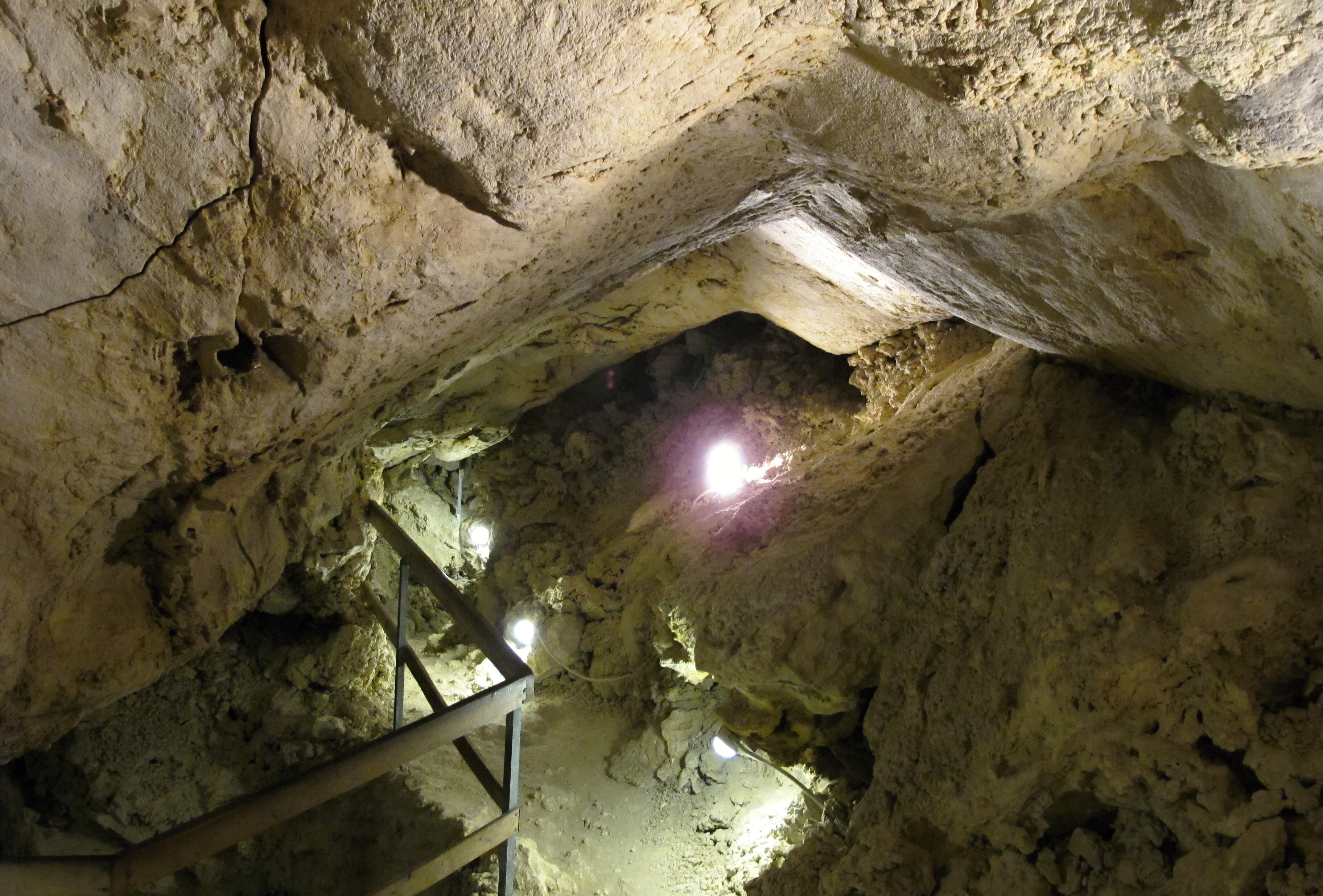 The Na Turoldu Caves (norther part of the Mikulov, Czech Republic)